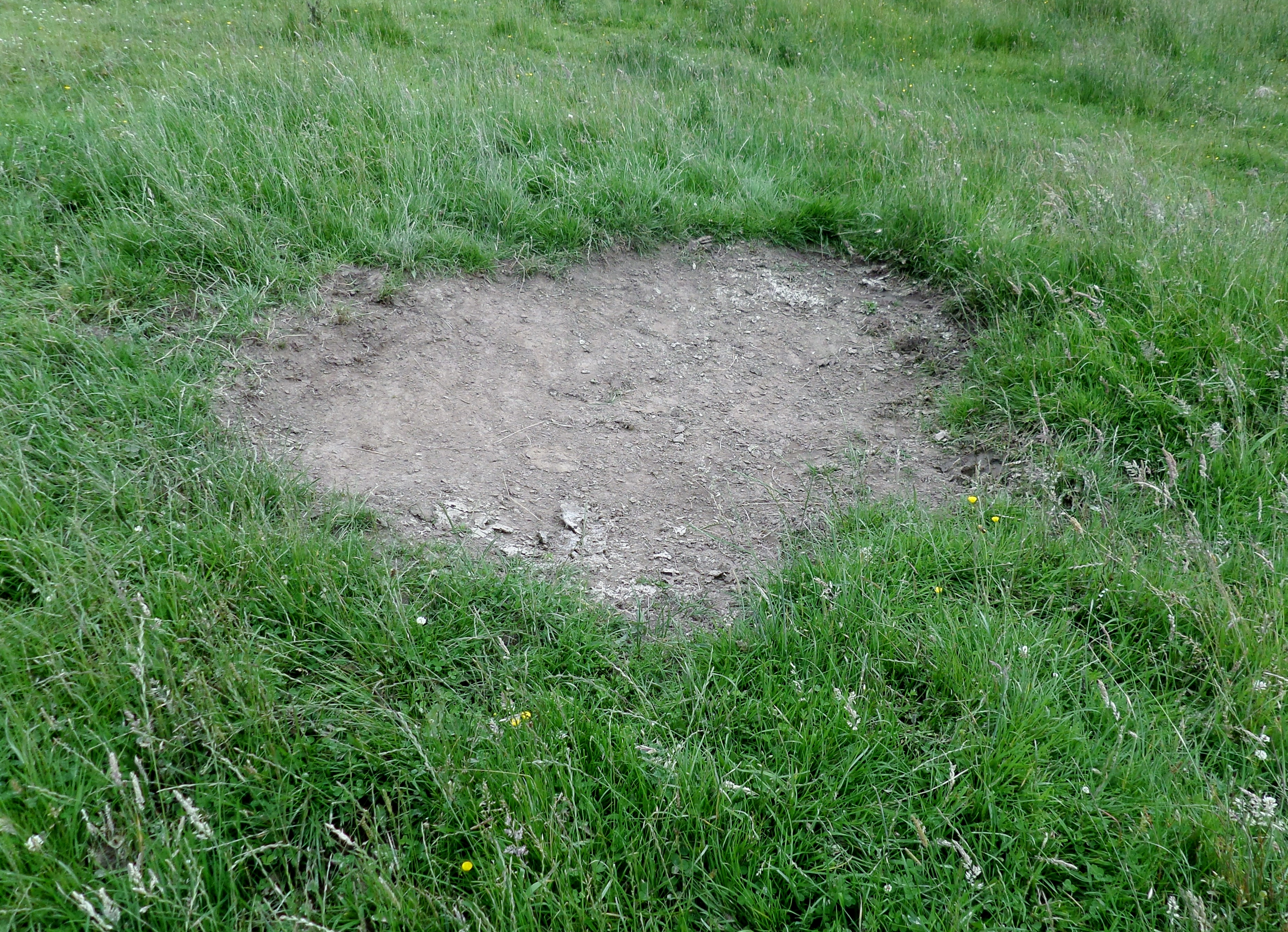 A Chillingham Wild Cattle bull scrape made during dominance displays, Chillingham Park, Northumbria, England